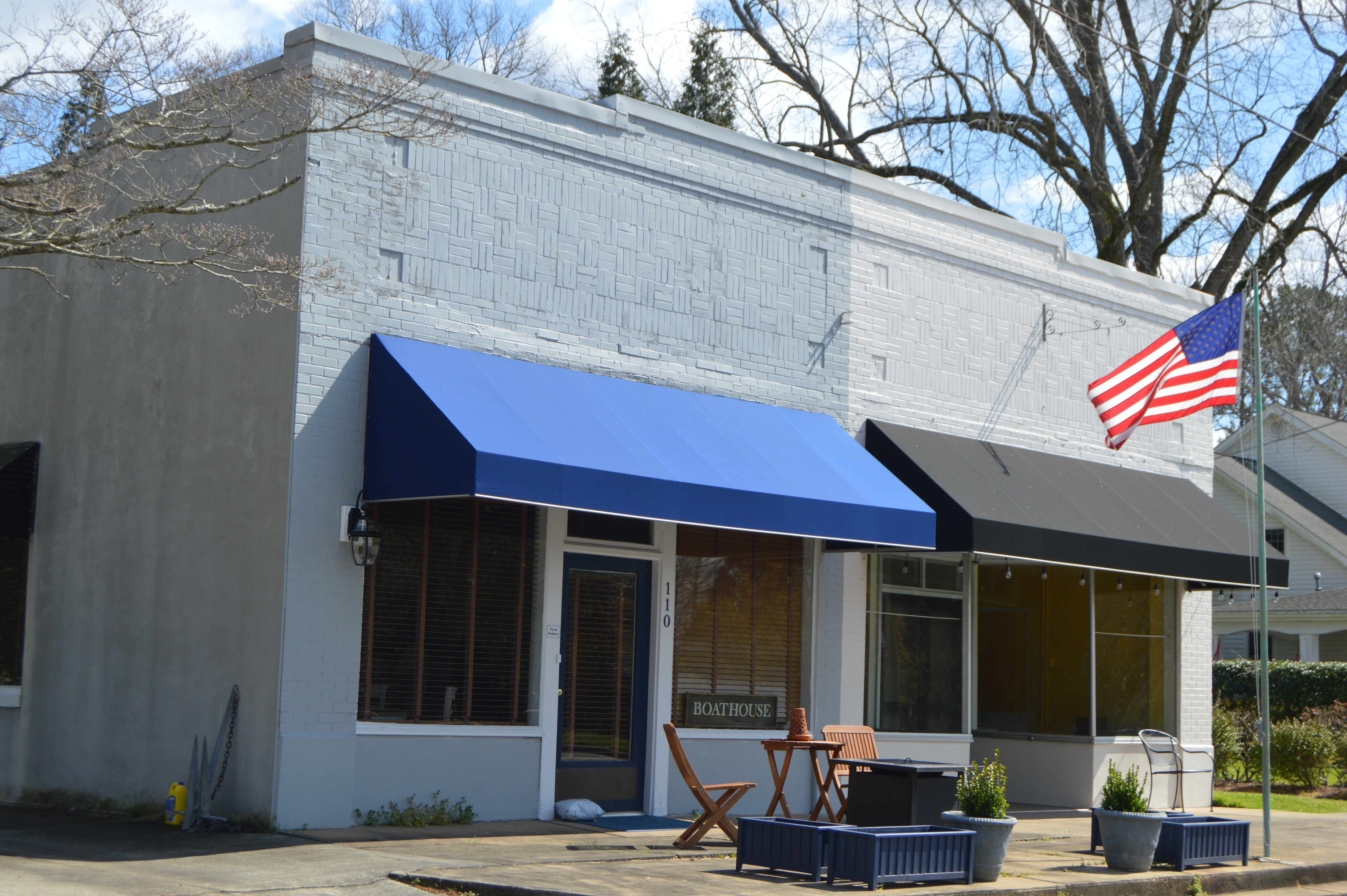 A pair of small commercial buildings on Main Street, south of Carteret Street, in Bath, North Carolina, United States. They are part of the Bath Historic District, a historic district that is listed on the National Register of Historic Places.